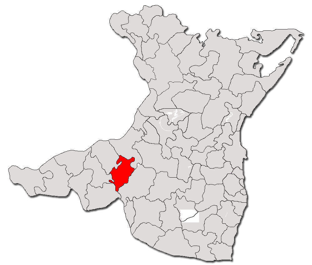 Contour map of commune Adamclisi